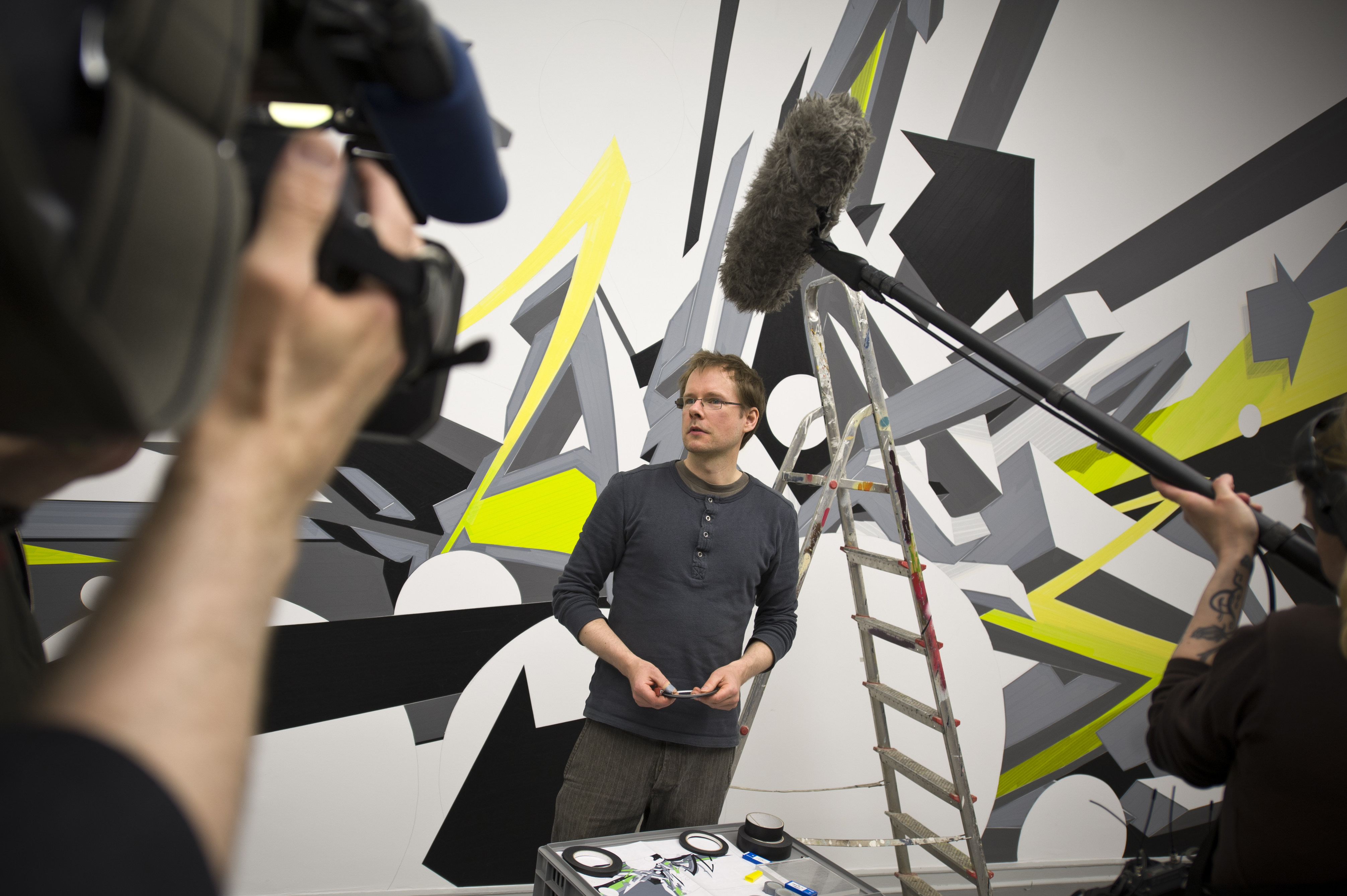 Graffiti-Artist Mirko Reisser (DAIM) in front his Artwork: "DAIM - up and around". Taping on wall, 1050 x 405 cm. In Wuppertal (Germany), 2011.